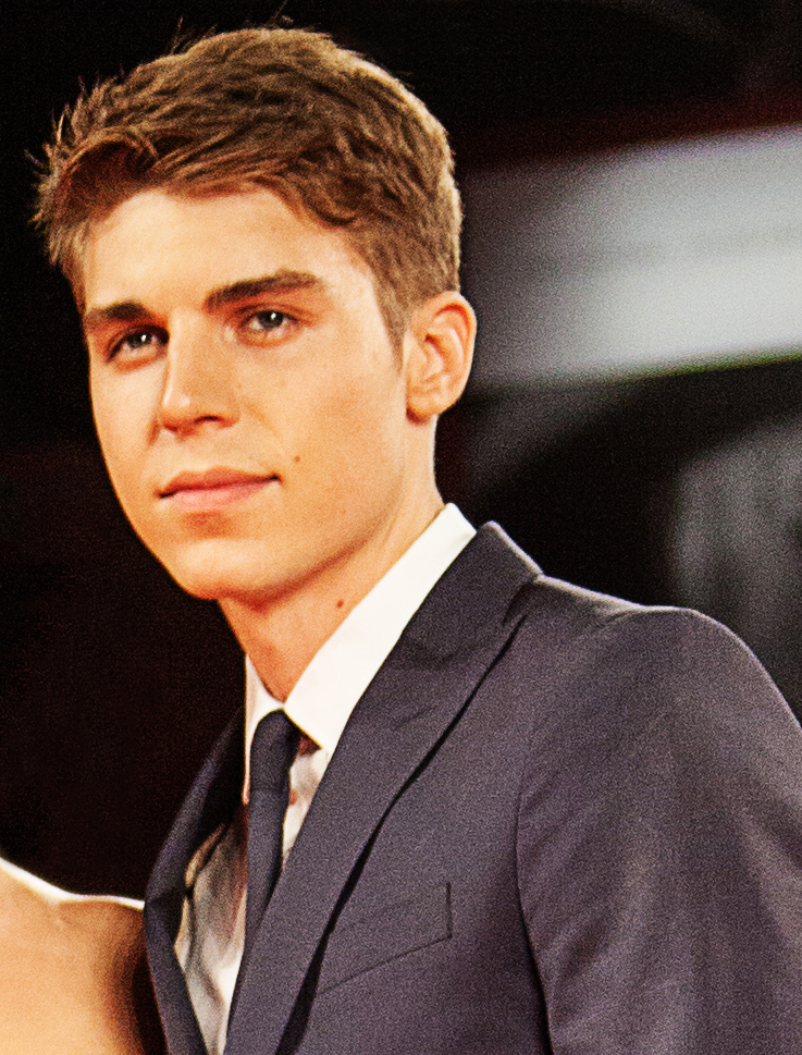 Nolan Gerard Funk at the 70th Venice International Film Festival